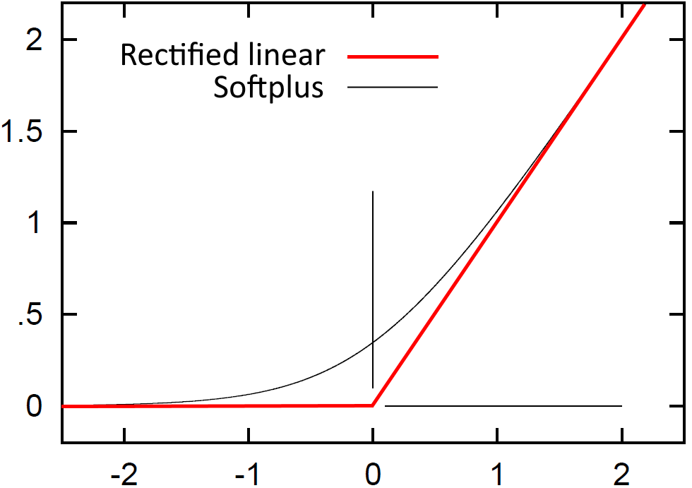 Rectified linear activation function and its differentiable approaximation Softplus.